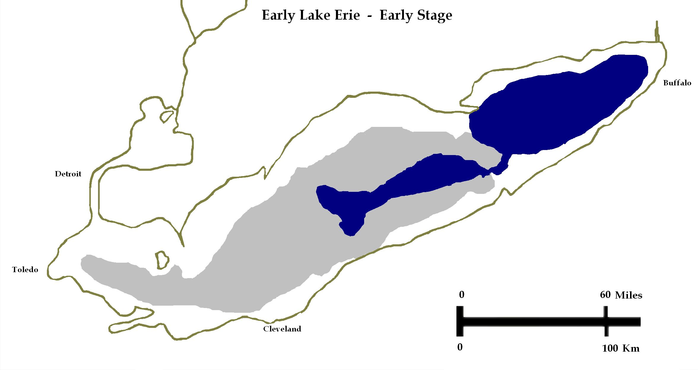 Early Stage of Early Lake Erie, based on Research overview: Holocene development of Lake Erie; Charles E. Herdendorf, 2013